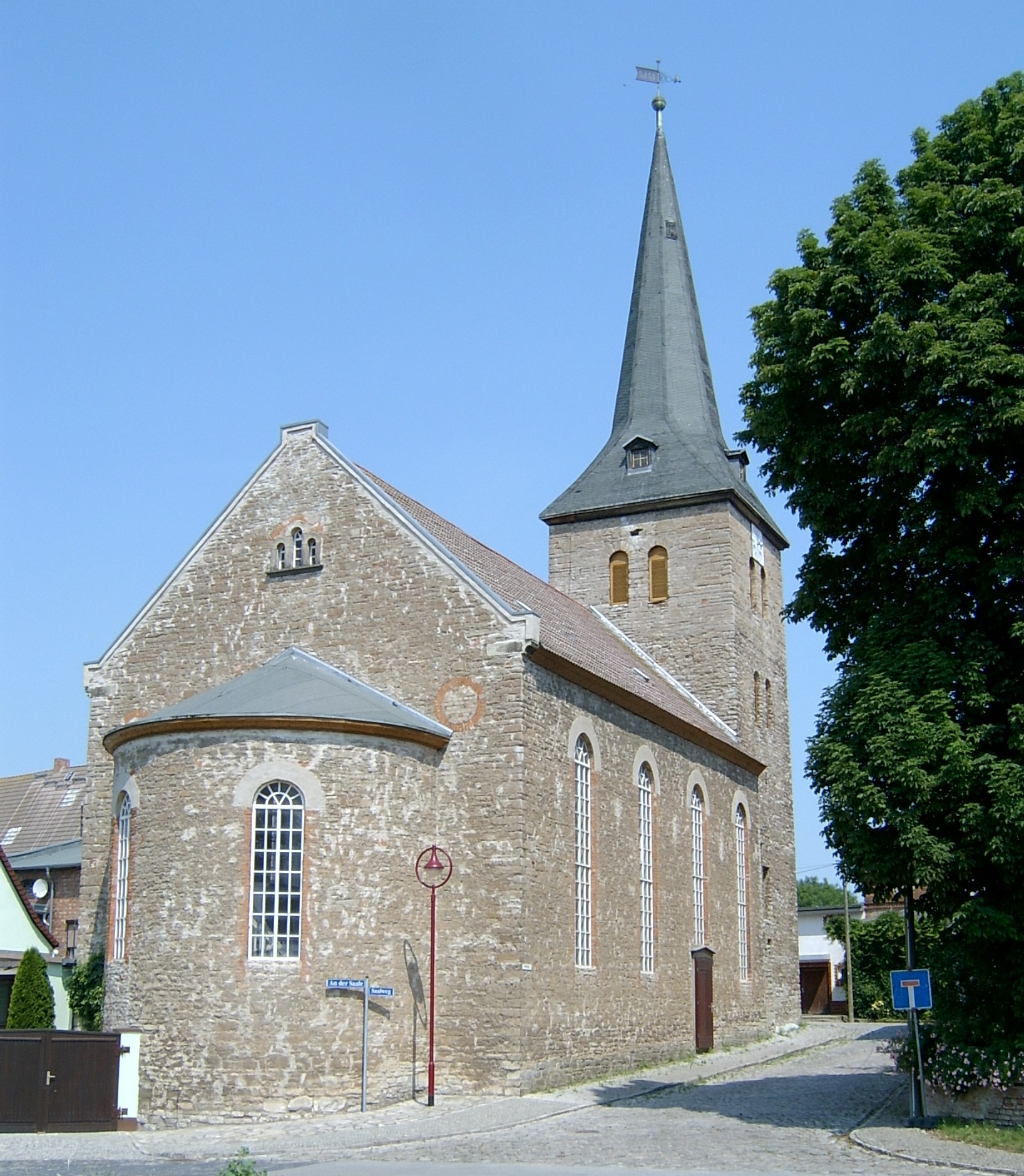 St. Peter's Church in Gröna.